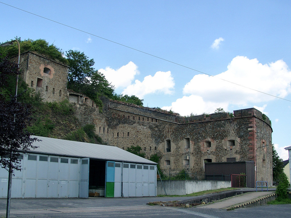 Fortress Feste Kaiser Franz in Koblenz